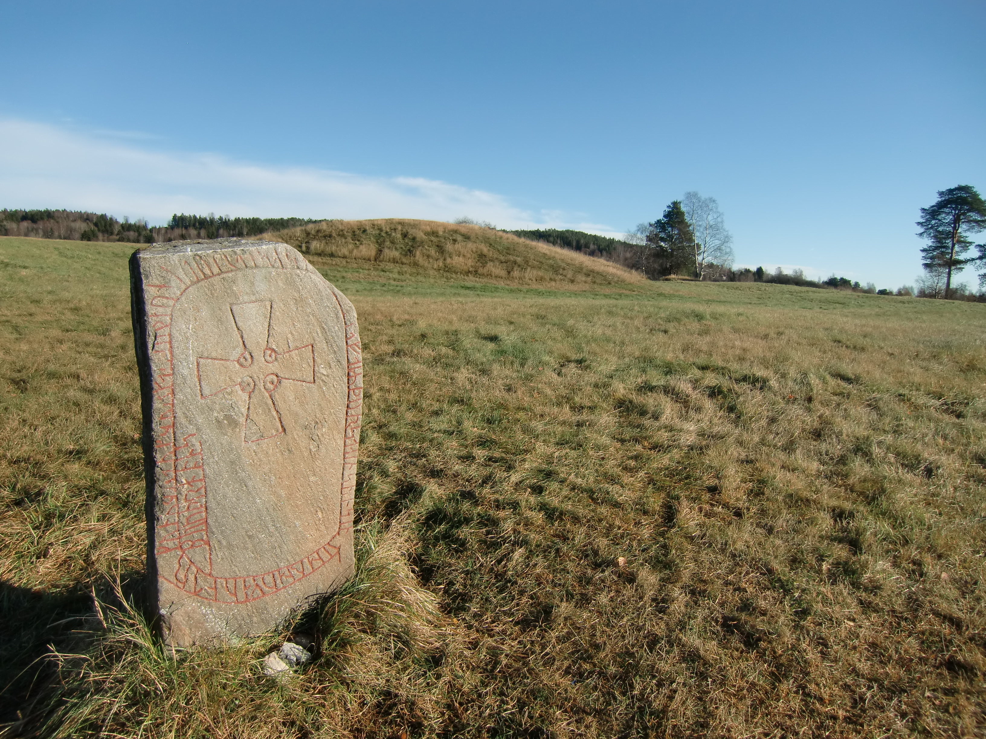 Runestone M 11 from Högom, Sweden